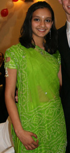 2008 World Junior Figure Skating Championships